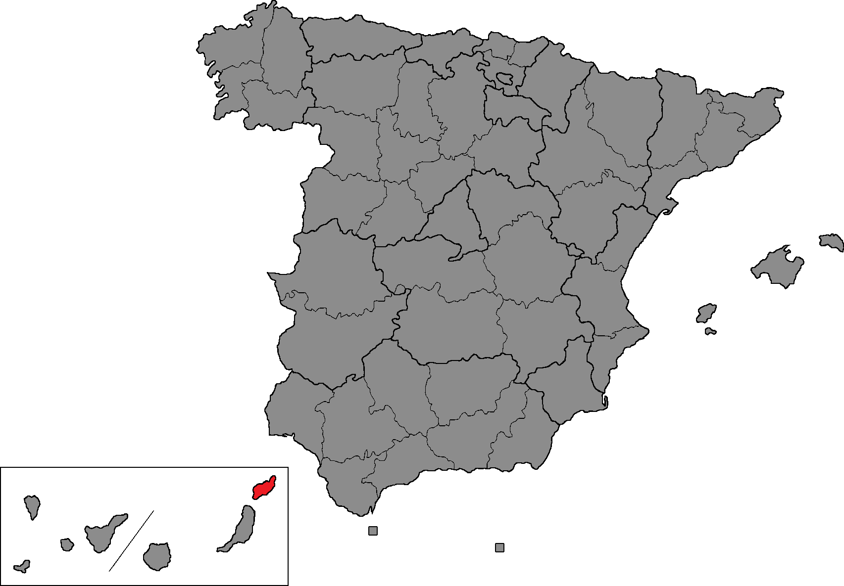 Spanish Senate district of Lanzarote.